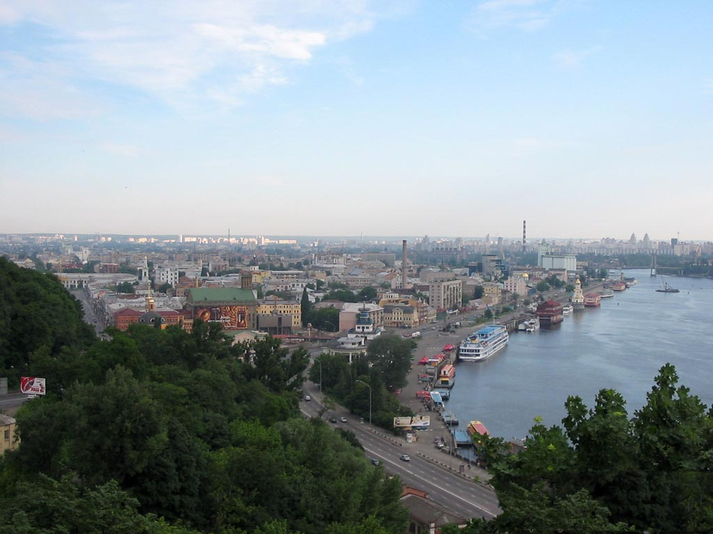 View of the historical and administrative Podil neigbourhood in Kiev.